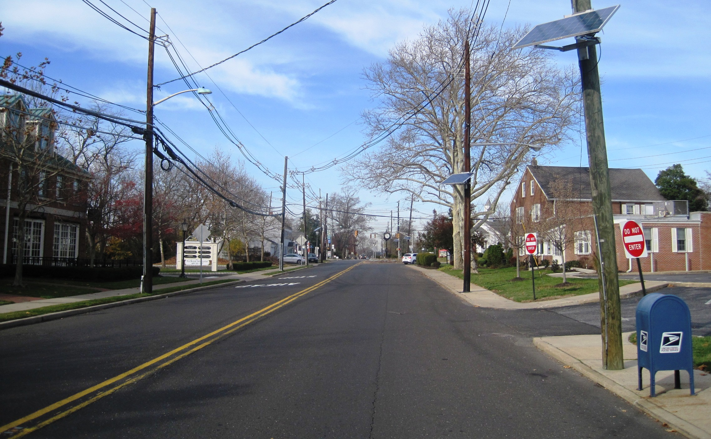 Photo of Yardville, New Jersey a census designated place within Hamilton Township, Mercer County. Photo taken along westbound South Broad Street (County Route 672) approaching CR 524.